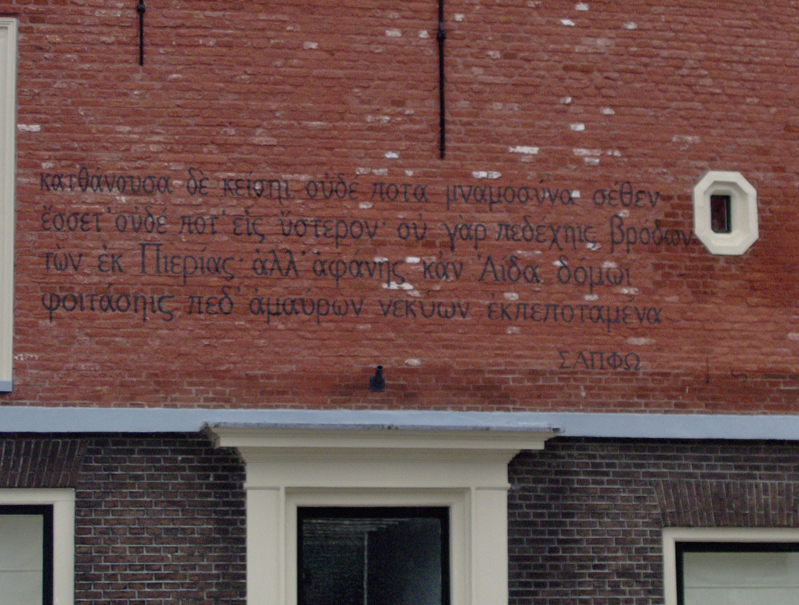 Poem by the Ancient Greek lyric poet Sappho, painted on a wall of a building at the corner between the Oude Singel and the Volmolengracht in Leiden, The Netherlands: "But thou shalt ever lie dead,/nor shall there be any remembrance of thee then or thereafter,/for thou hast not of the roses of Pieria;/but thou shalt wander obscure even in the house of Hades,/flitting among the shadowy dead." Text κατθάνουσα δὲ κείσηι οὐδέ ποτα μναμοσύνα σέθεν ἔσσετ΄ οὐδὲ ποτ έις ΄ὔστερον· οὐ γὰρ πεδέχηις βρόδων τὼν ἐκ Πιερίας· ἀλλ΄ ἀφάνης κἀν Ἀίδα δόμωι φοιτασηις πέδ άμαυρων νεκυων εκπεποταμενα ΣΑΠΦΩ sappho Lobel-Page 55 / Voigt 55 / Diehl 58 / Bergk 68 / Cox 65